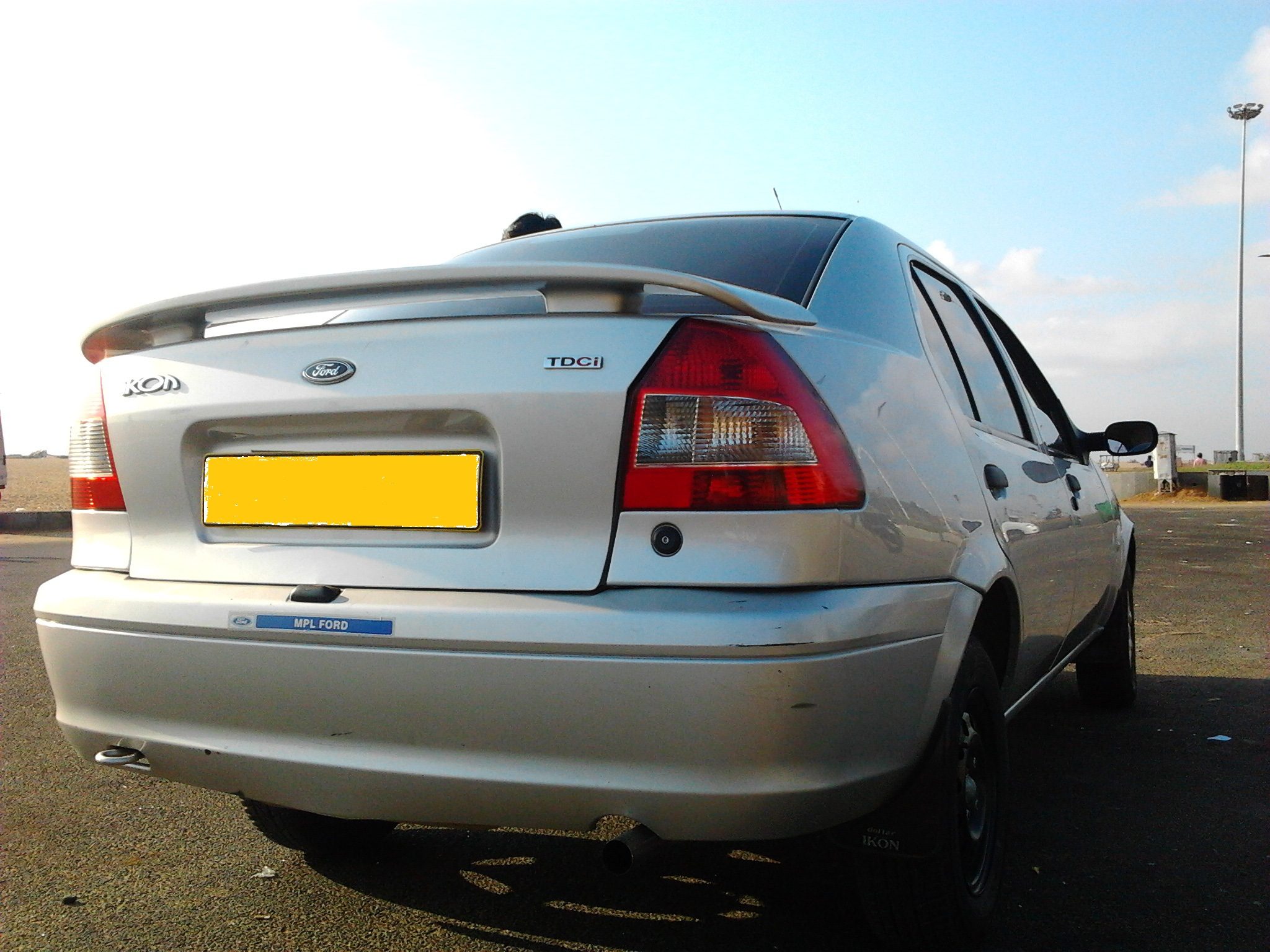 Photoed using Samsung Wave 525. Number plate has been edited for privacy.